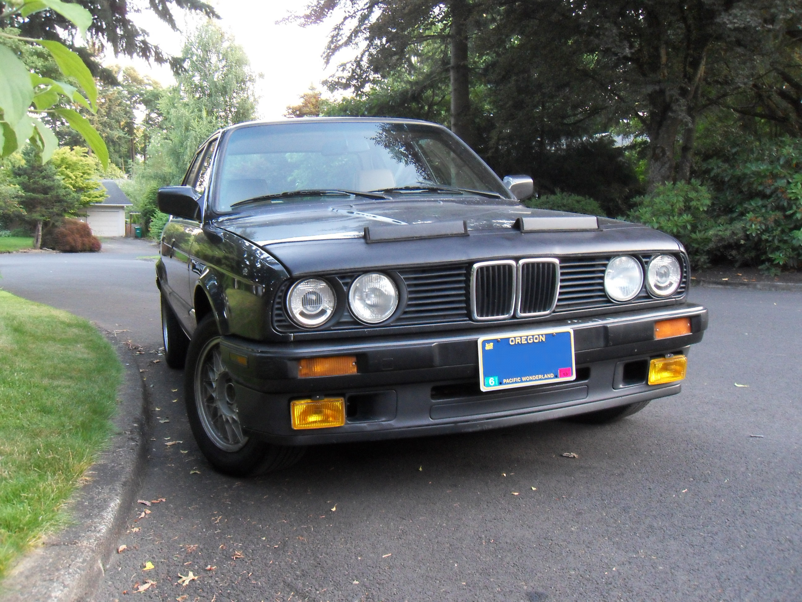 1991 BMW 318i with European spec ellipsoid headlights and hood bra